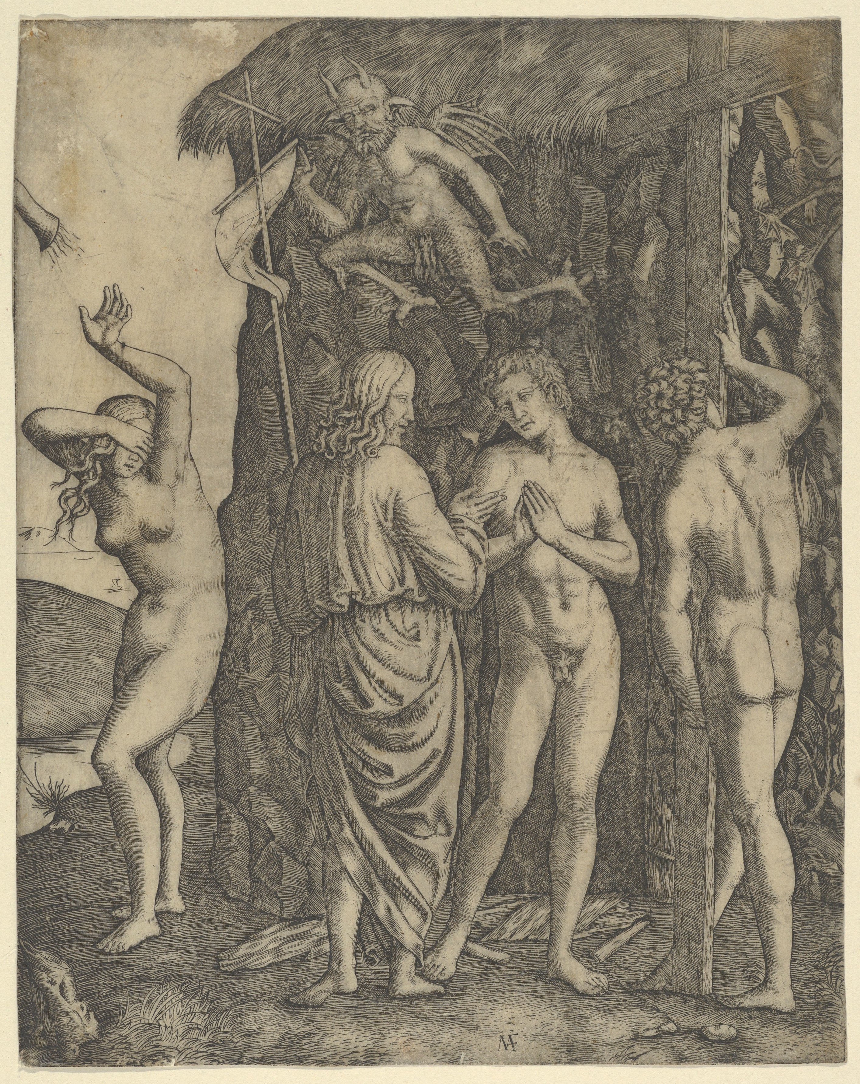 Print; Prints